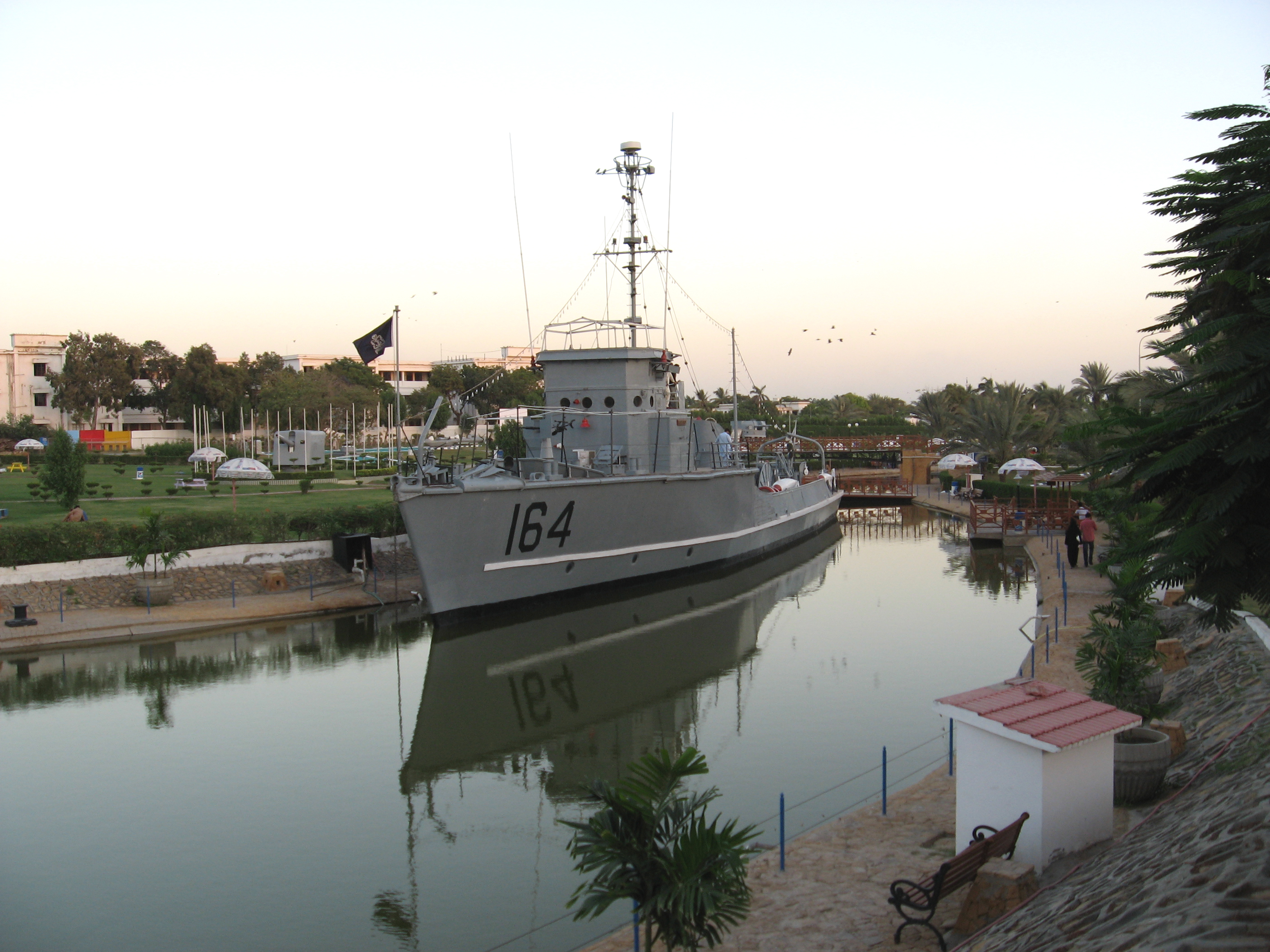 Pakistan Navy's Minesweeper Ship at Pakistan Maritime Museum, Karachi, Pakistan